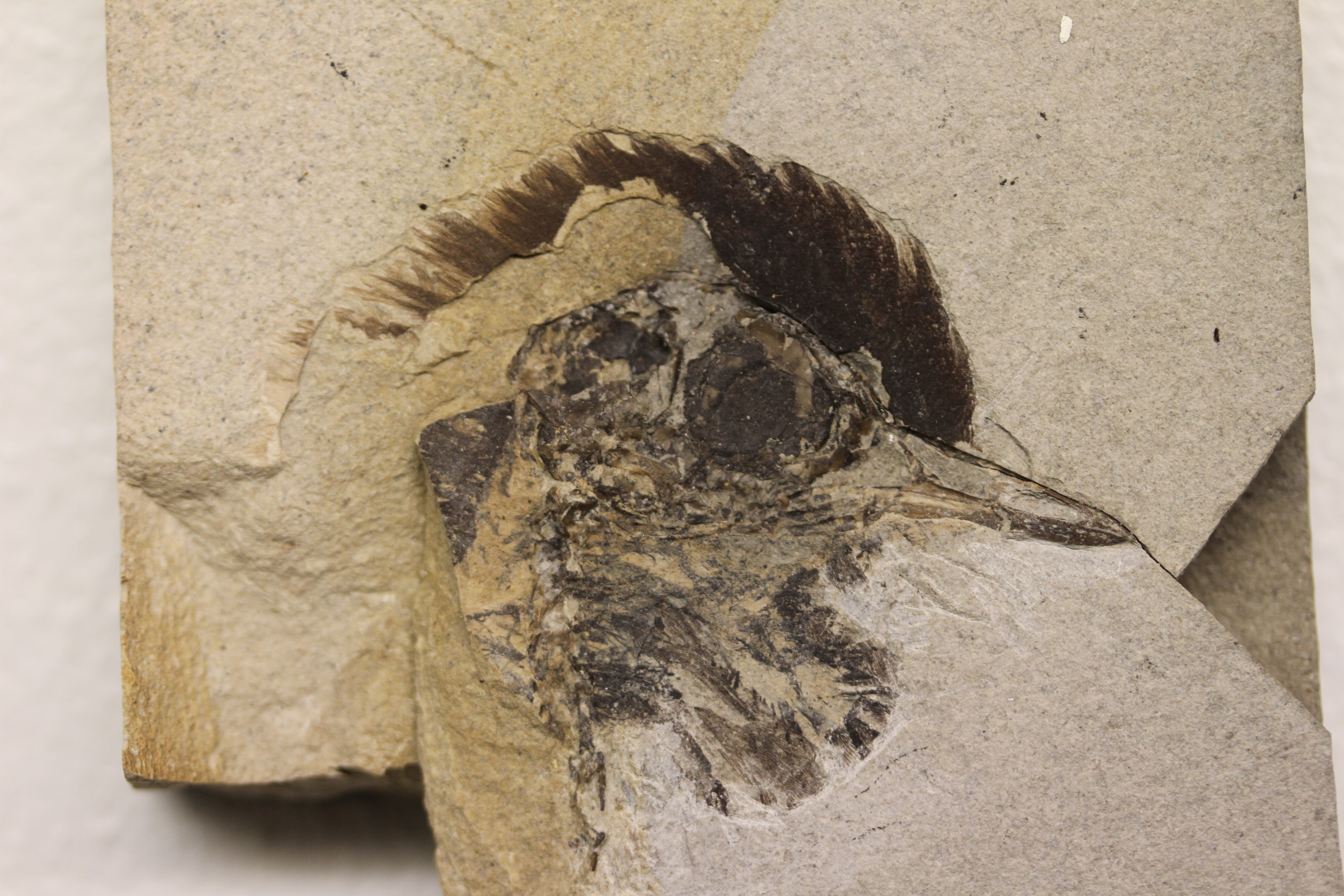 fossile bird, Early Eocene Fur Formaton, Denmark